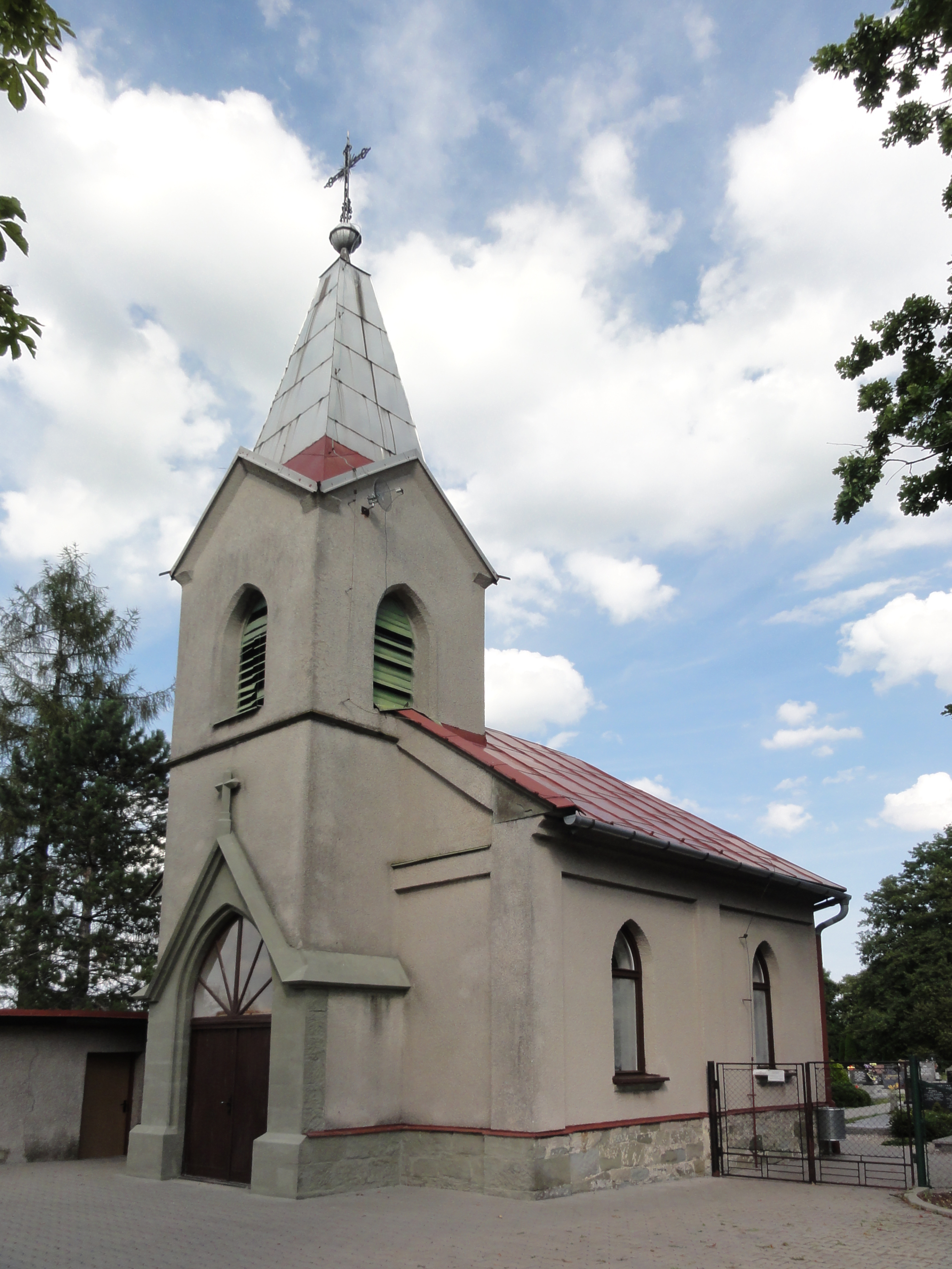 Chapel in Smilovice